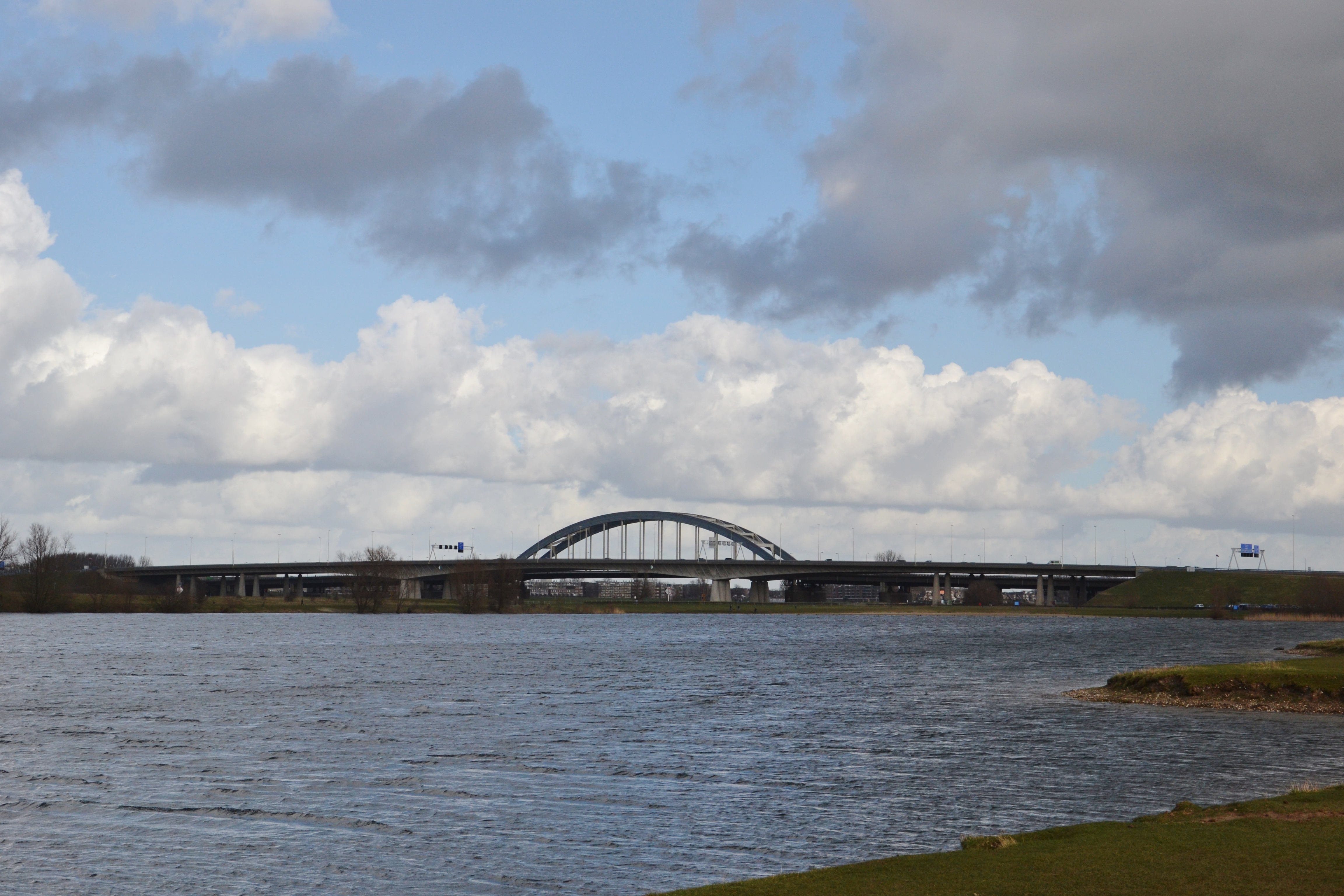 Bridges across de river Lek, near Vianen on the motorway A2. In front the new one, behind it the older.